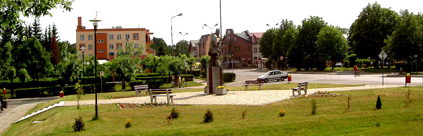 Tarnogród, Poland - Main Square South